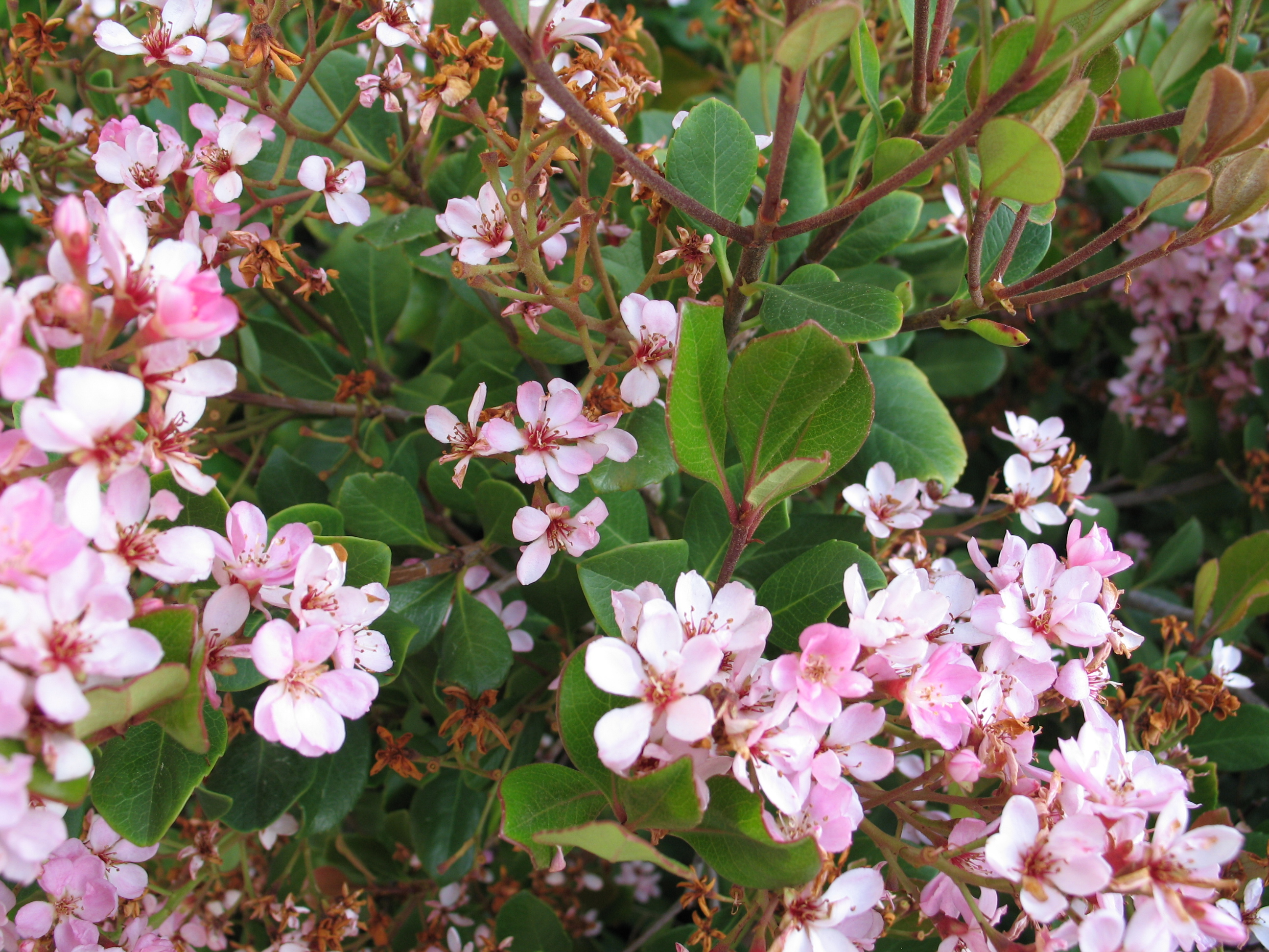 Indian Hawthorn in bloom. McJaje